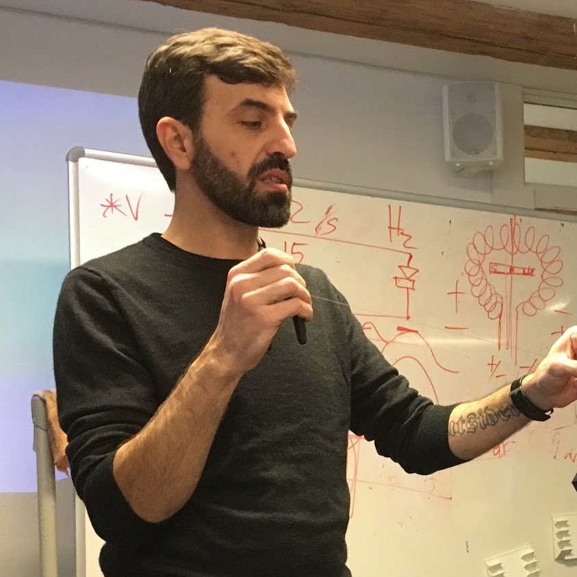 Ubi De Feo teaching electronics at the Copenhagen Institute of Interaction Design